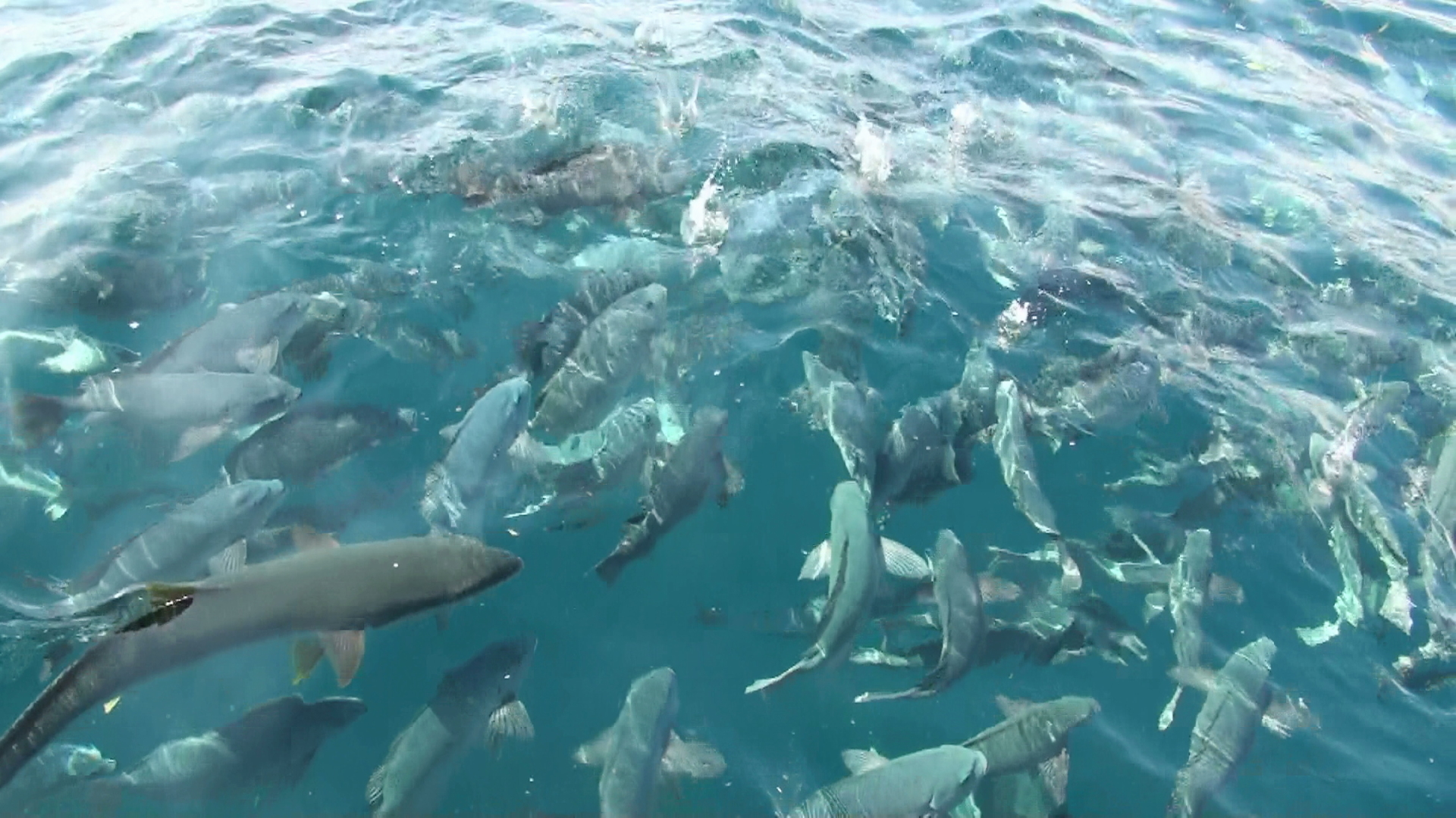 Special Natural Monument, the habitat of Pagrus major;Red seabream;マダイsnapper, TAINOURA